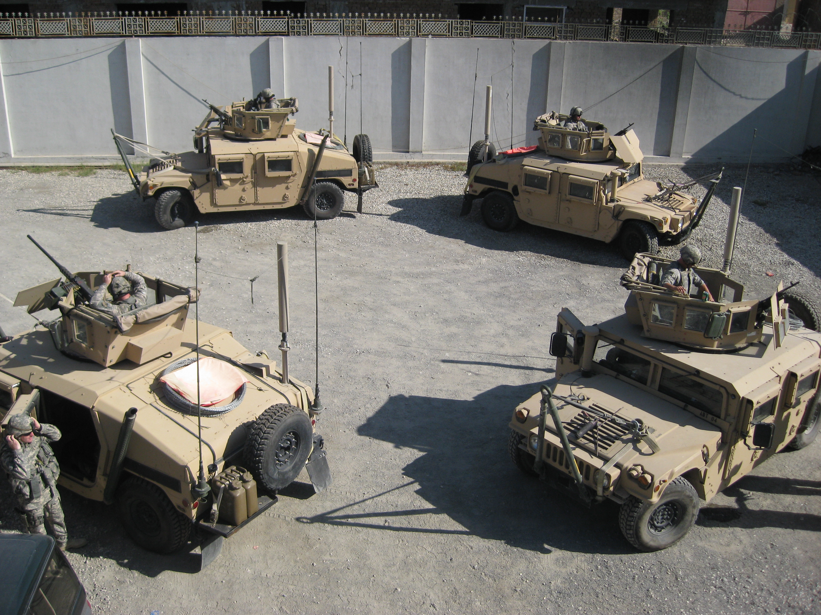 The military did something very clever -- it brought a group of National Guardsmen who are farmers in as special advisors on agricultural reconstruction. They came by the Taj for an informal briefing on our work, and I was really impressed with their knowledge, insight, and compassion for the Afghans.